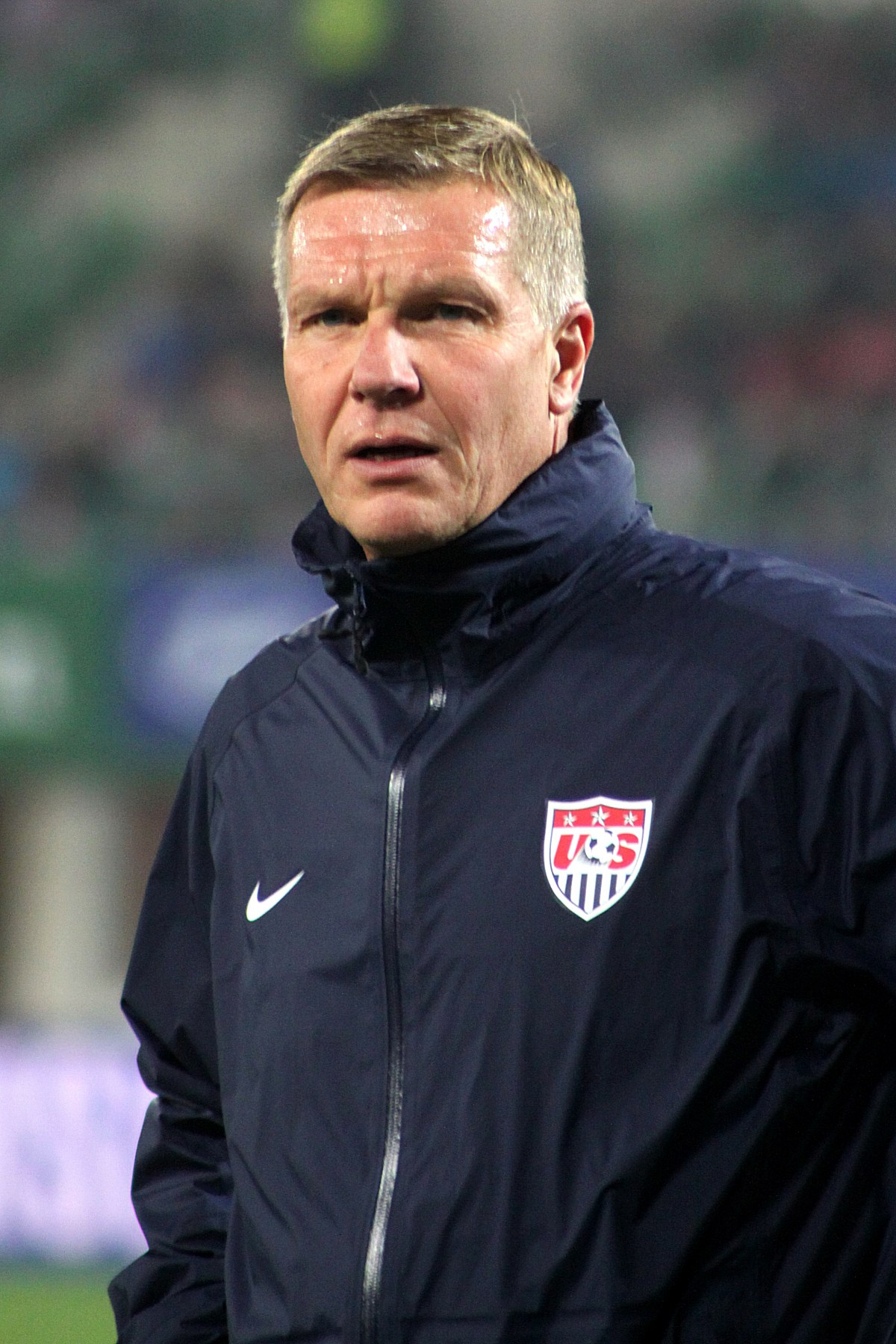 Friendly-match Austria vs. USA (1:0) in the Ernst-Happel-Stadion in Vienna at 2013-03-22. – The photo shows the keeper-coach of USA Chris Woods.